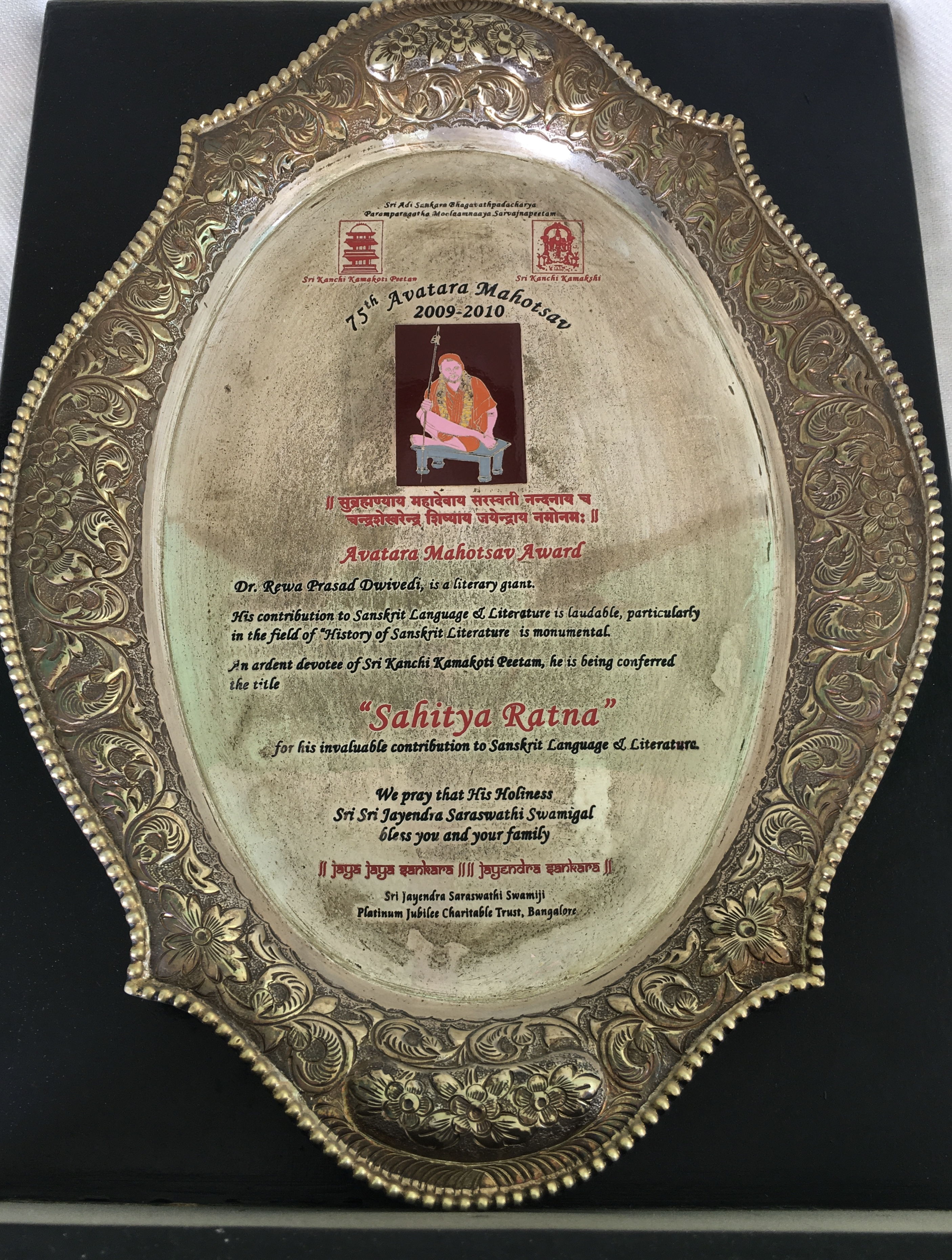 The Sahitya Ratna citation received by Acharya Rewa Prasad Dwivedi, stating that Acharya Dwivedi is a 'Literary Giant'